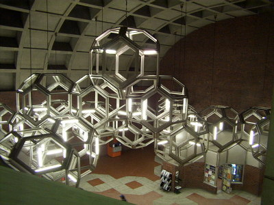 "Système", by Pierre Granche, at Namur metro station, Montreal. Version of a photo from Montréalais's website ; this version released by him under GNU FDL.